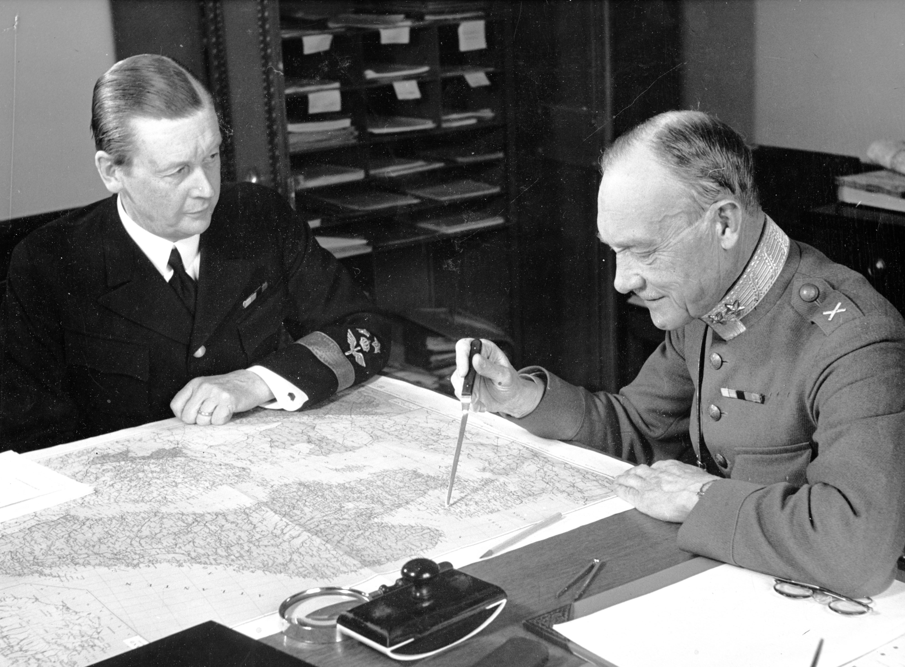 Lieutnant general Torsten Friis, Commander-in-Chief of the Swedish Air Force 1934-42, and lieutnant general Per Sylvan, Commander-in-Chief of the Swedish Army 1937-40.